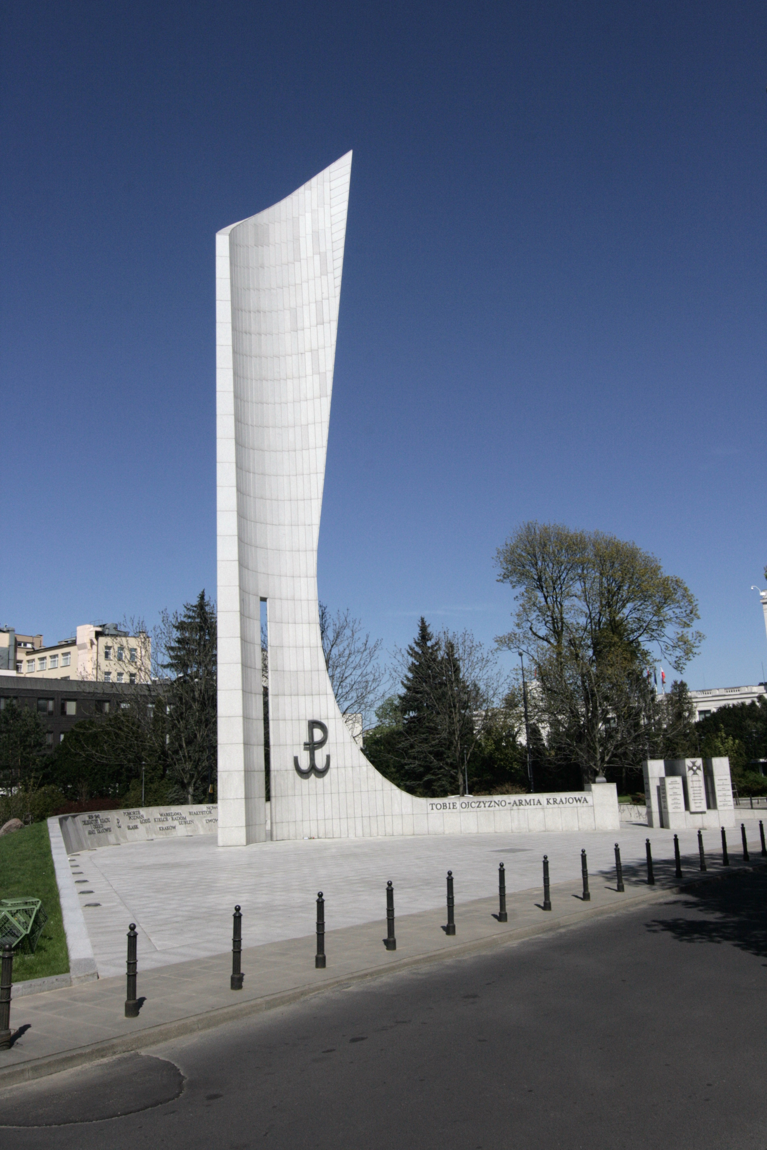 Monument of Polish Underground State and Home Army in from of Parliament building at the corner of Wiejska and Matejki Streets in Warsaw